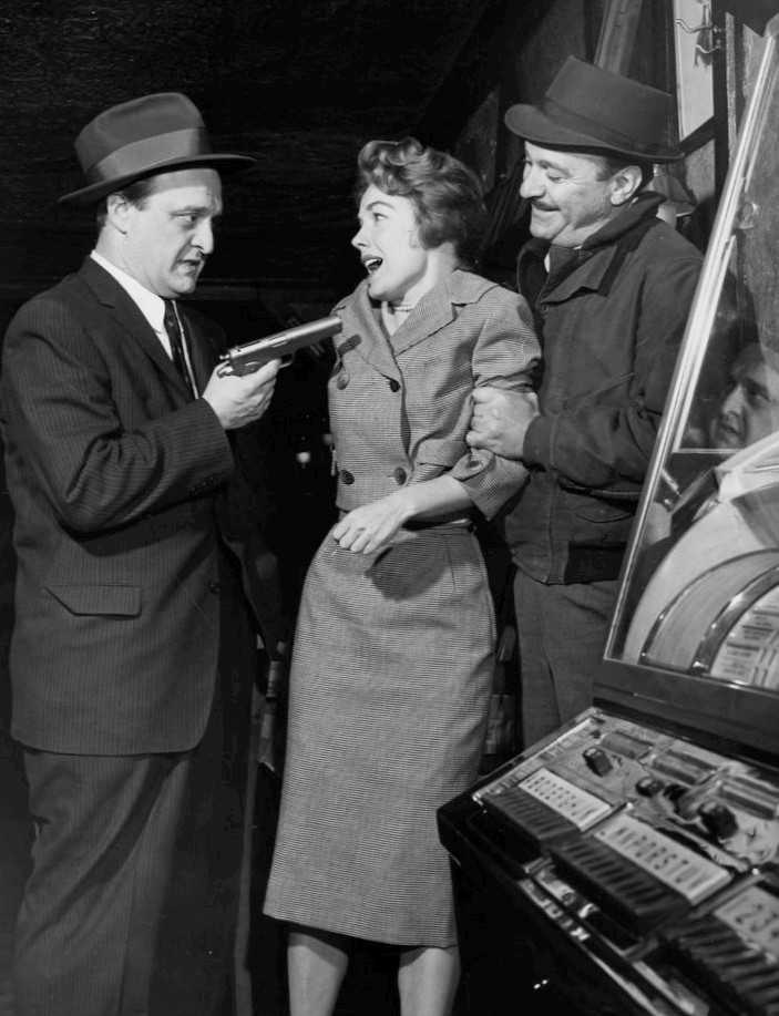 L. to R. : Vincent Gardenia, Virginia Gibson & Val Avery in the TV-series Armstrong Circle Theatre, episode Sound of Violence - publicity still (cropped)